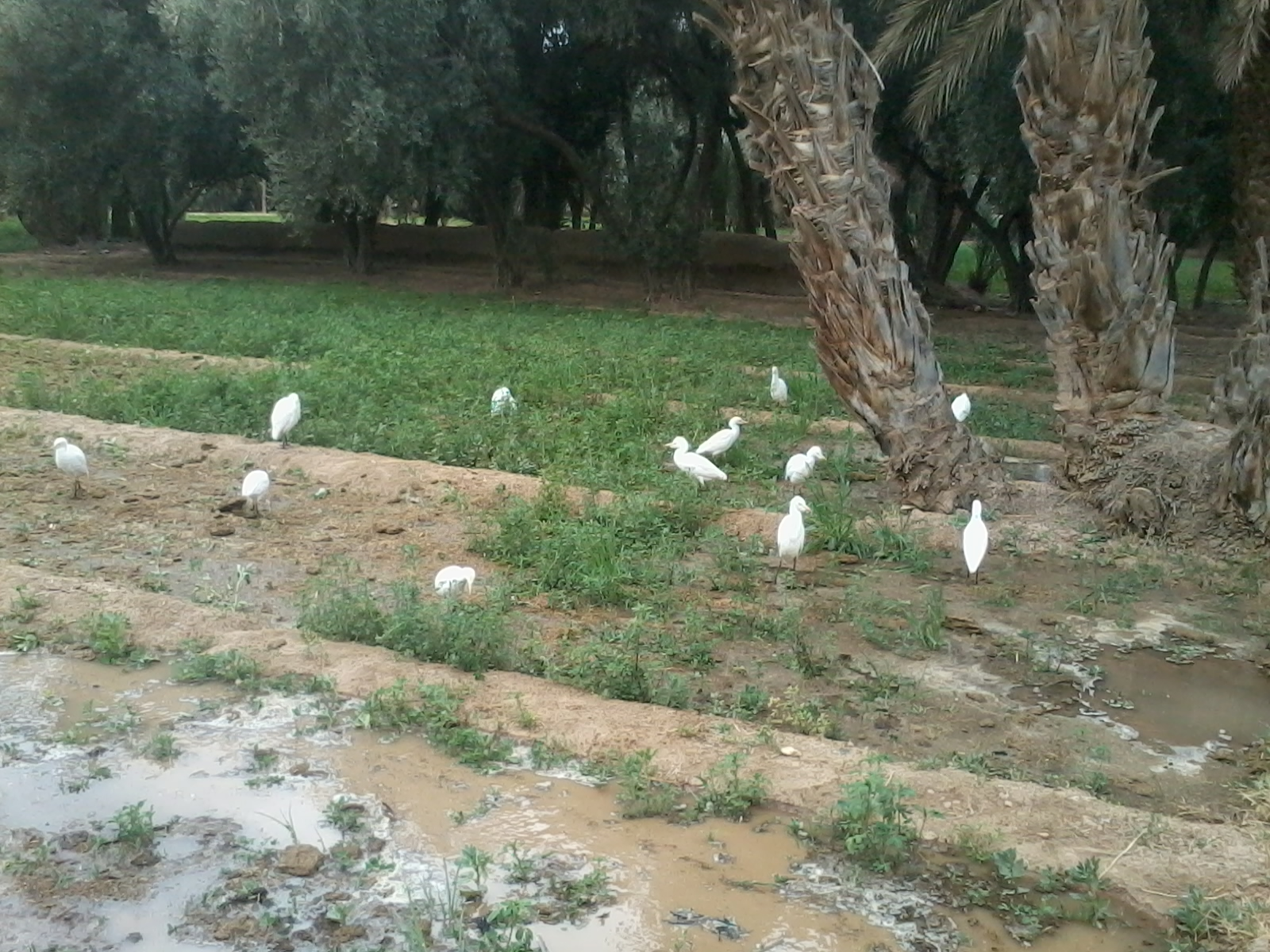 a wonderful view of Goulmima's nature